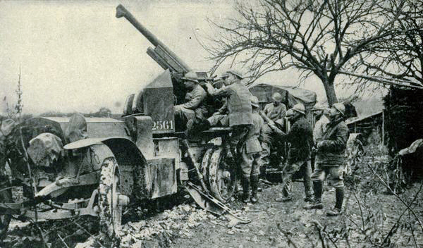 a 75 mm anti-aircraft gun in World War I, mounted on a car for greater mobility. The car in the back carries a supply of shells.